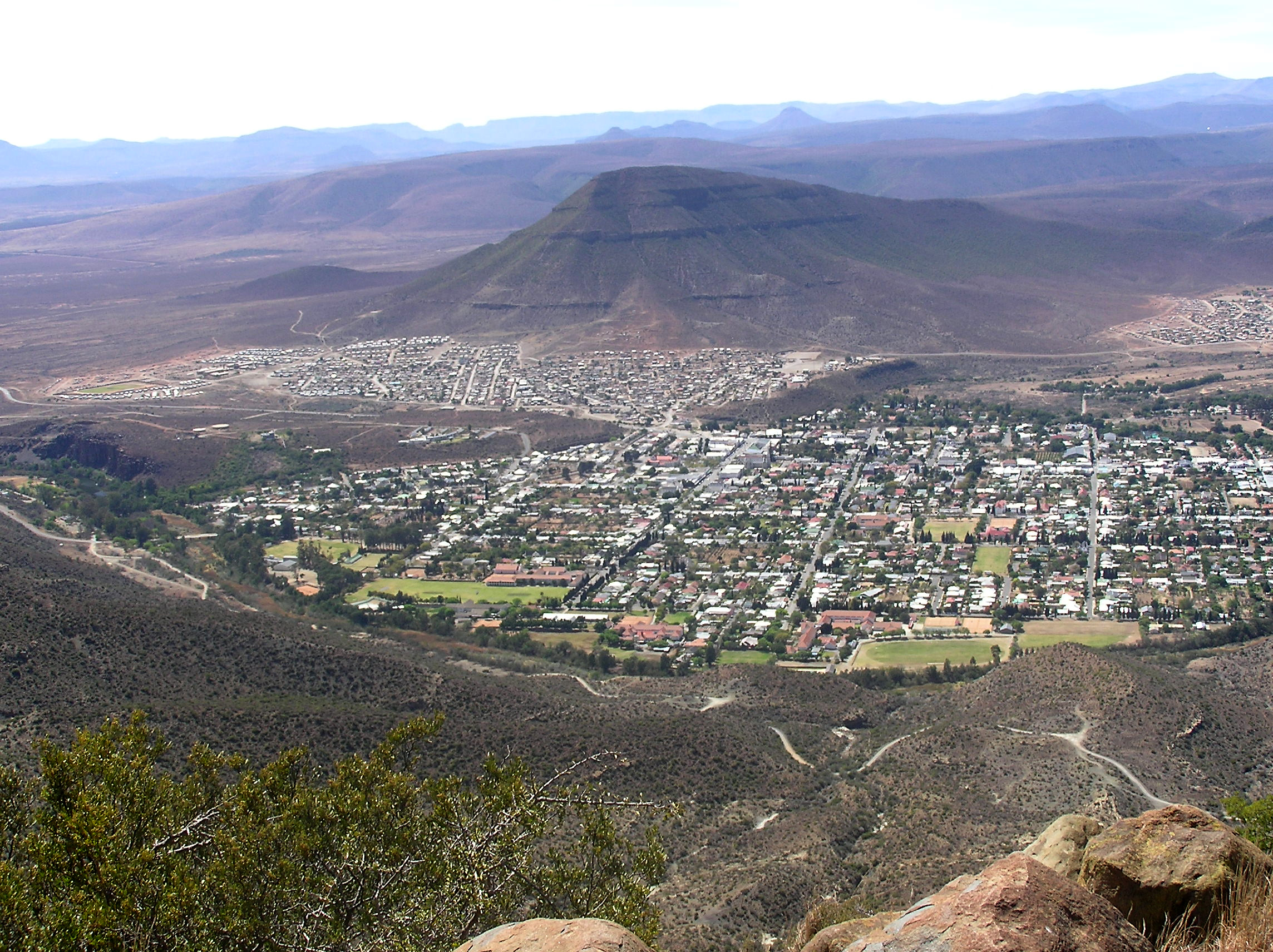 View from Valley of Desolation to Graaff-Reinet, Camdeboo Local Municipality, Province Eastern Cape, South Africa